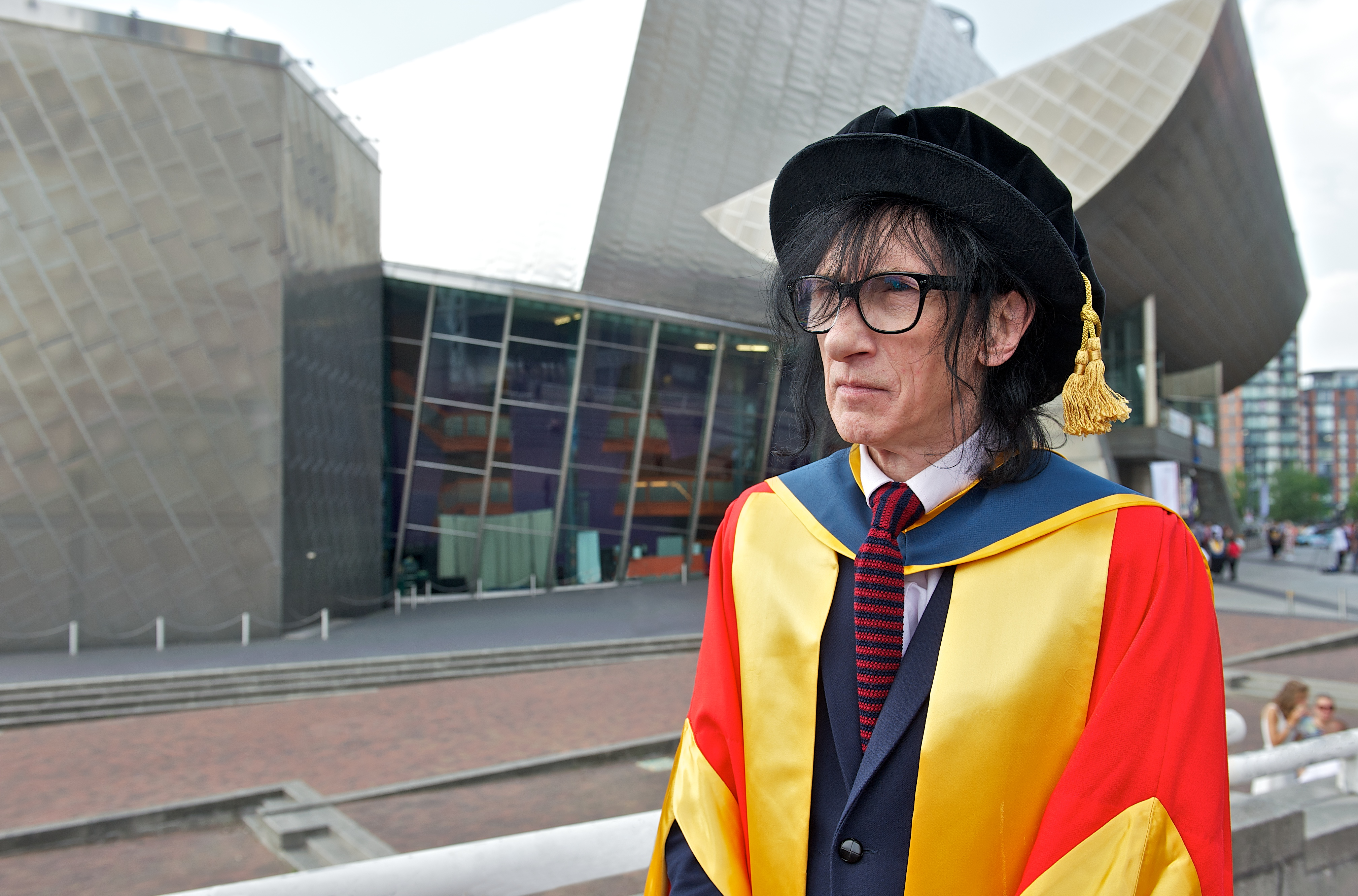 John Cooper Clarke received an honorary degree from the University of Salford.